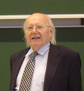 Heinz Zemanek, at Johannes Kepler University, Linz, Austria; September 2007